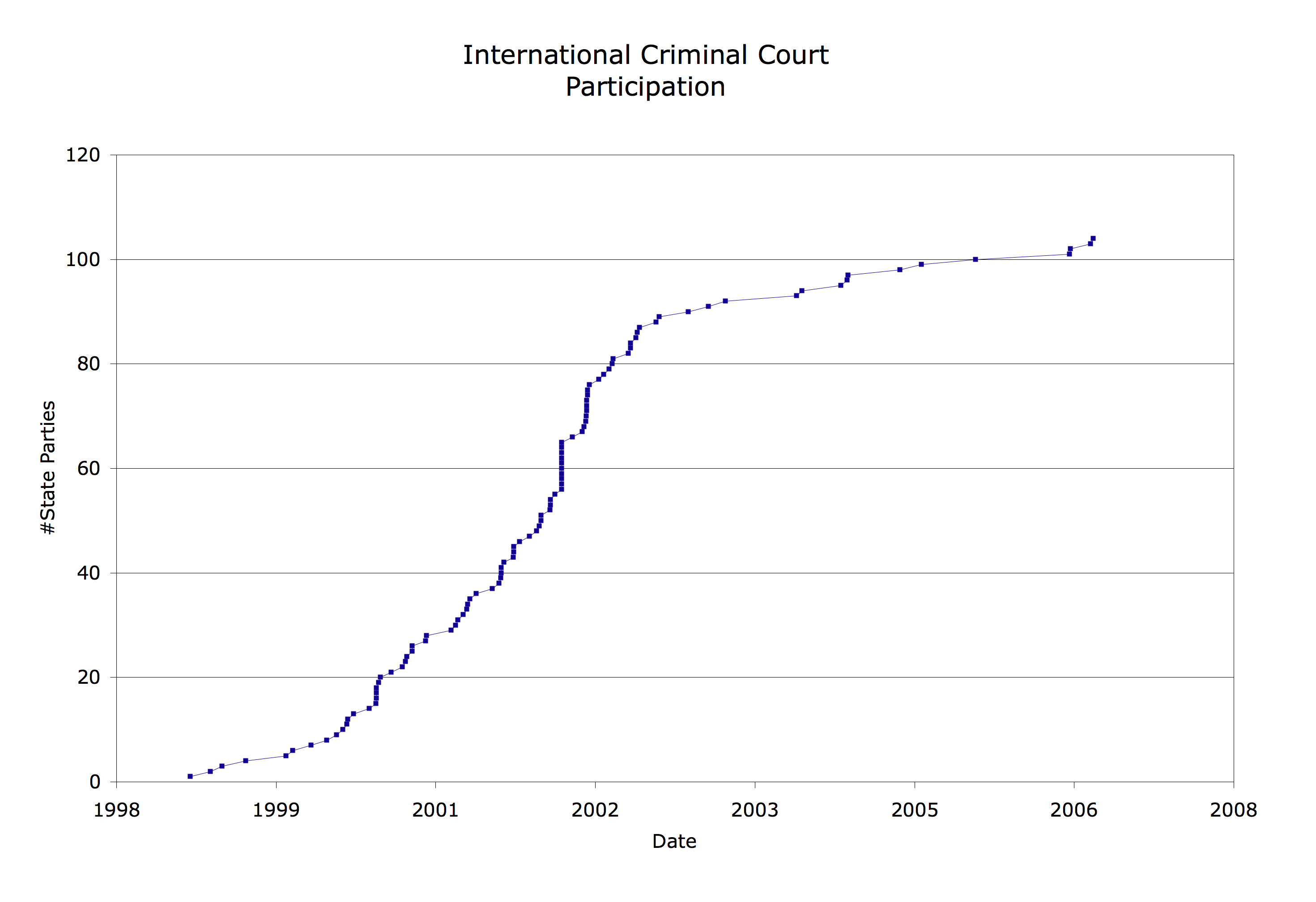 Number of state parties to the International Criminal Court from its creation to 2006-11-19